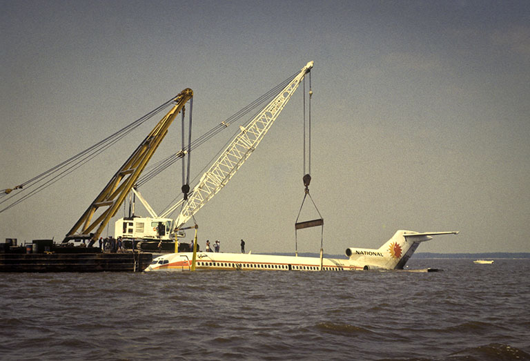 Salvage operation on National Air Lines flight 193 that landed in Escambia Bay, Pensacola, Florida